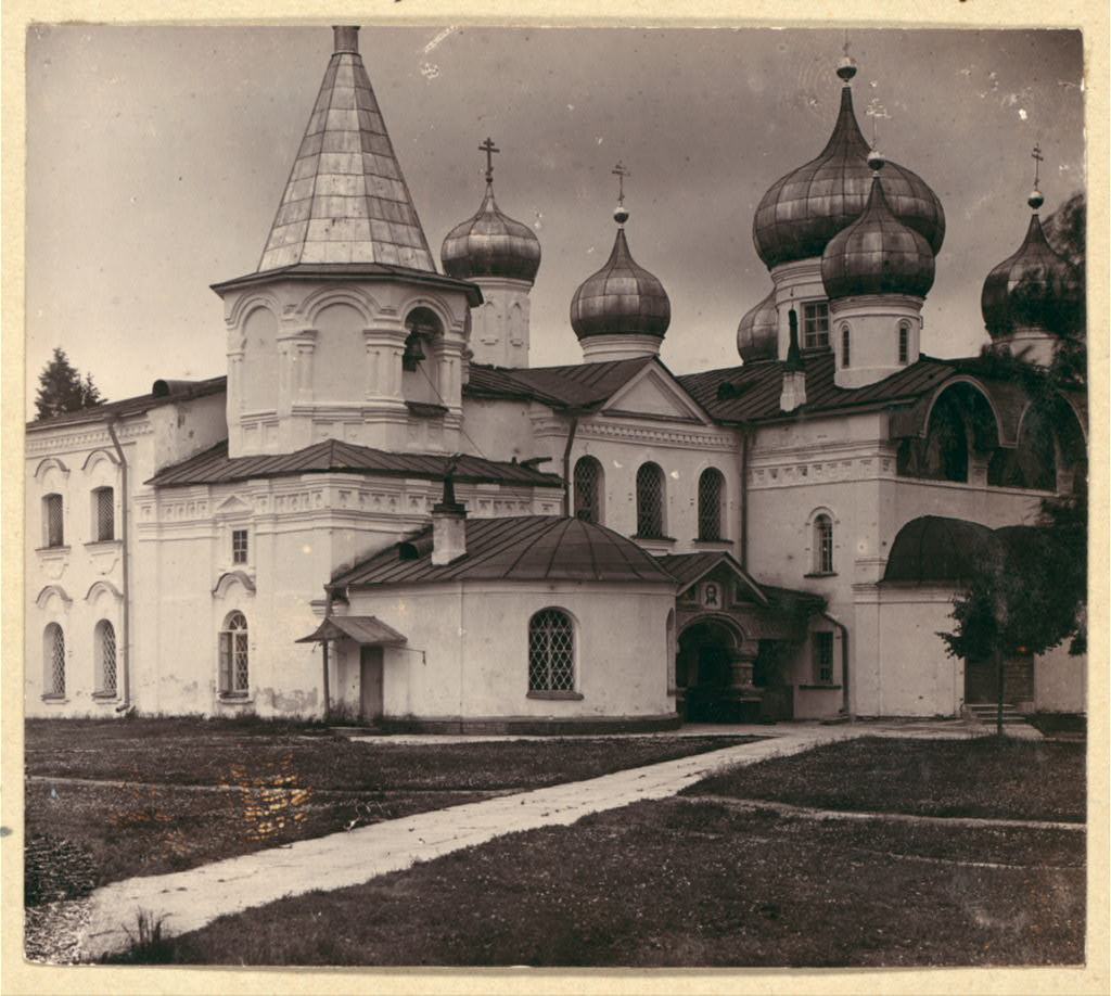 Cathedral of the Transfiguration in Aleksandr Svirskii Monastery. General view.